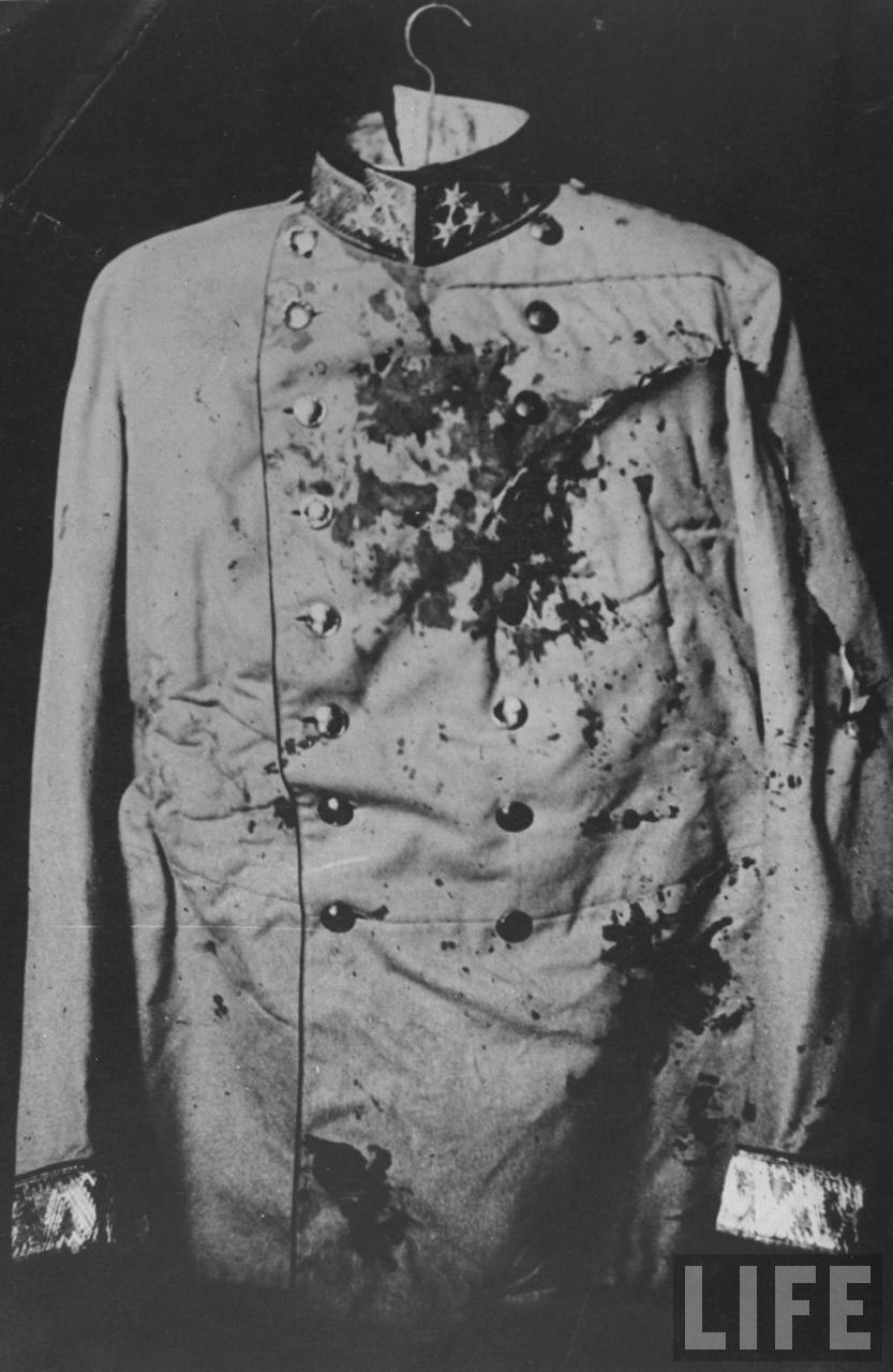 Franz Ferdinad's Summer Jacket in blood after the assassination.